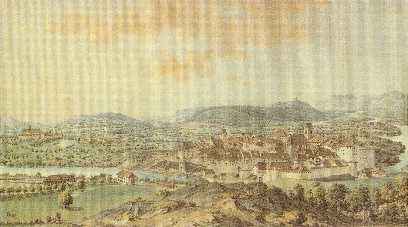 The town of Brugg around 1810, Aquatint by Johann Wilhelm Heim